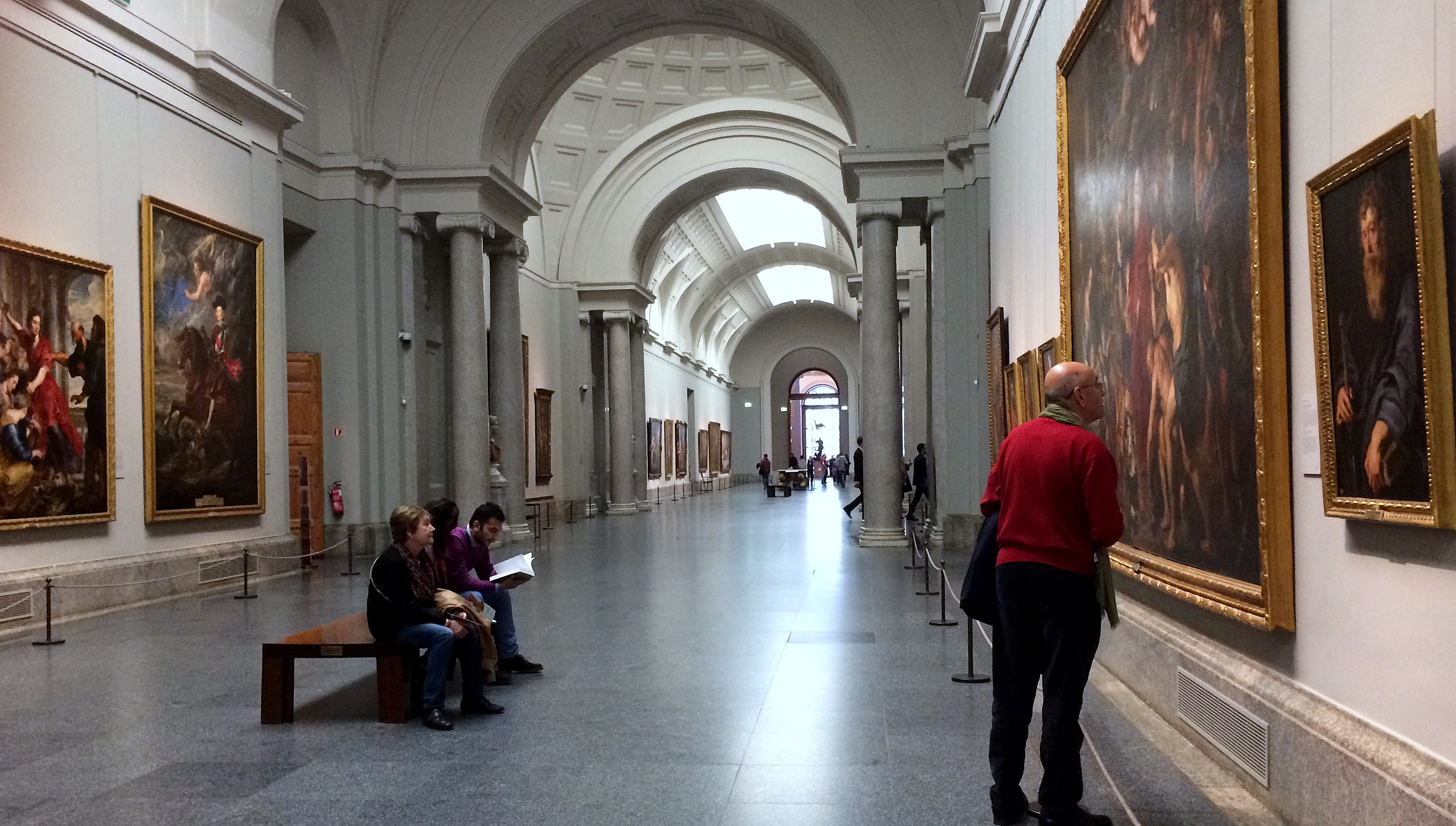 The main transversal exhibition hall on 1th floor of Museo del Prado